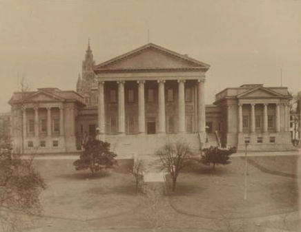 A photograph of the Virginia State Capitol from 1916